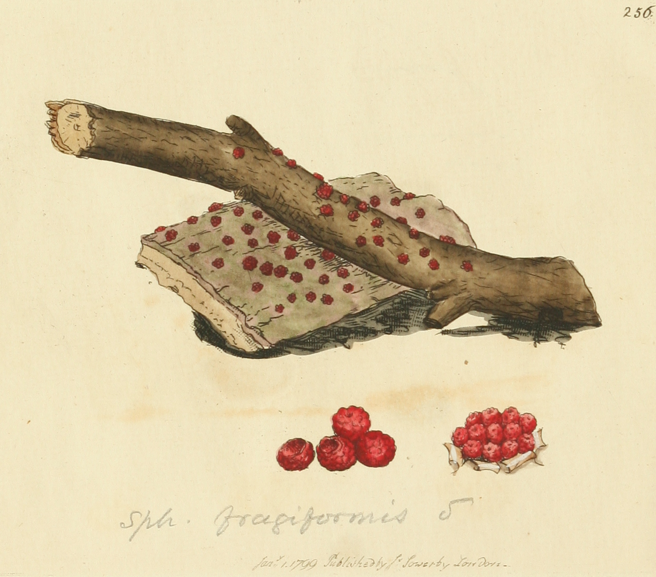 This is a plate from James Sowerby's Coloured Figures of English Fungi or Mushrooms.